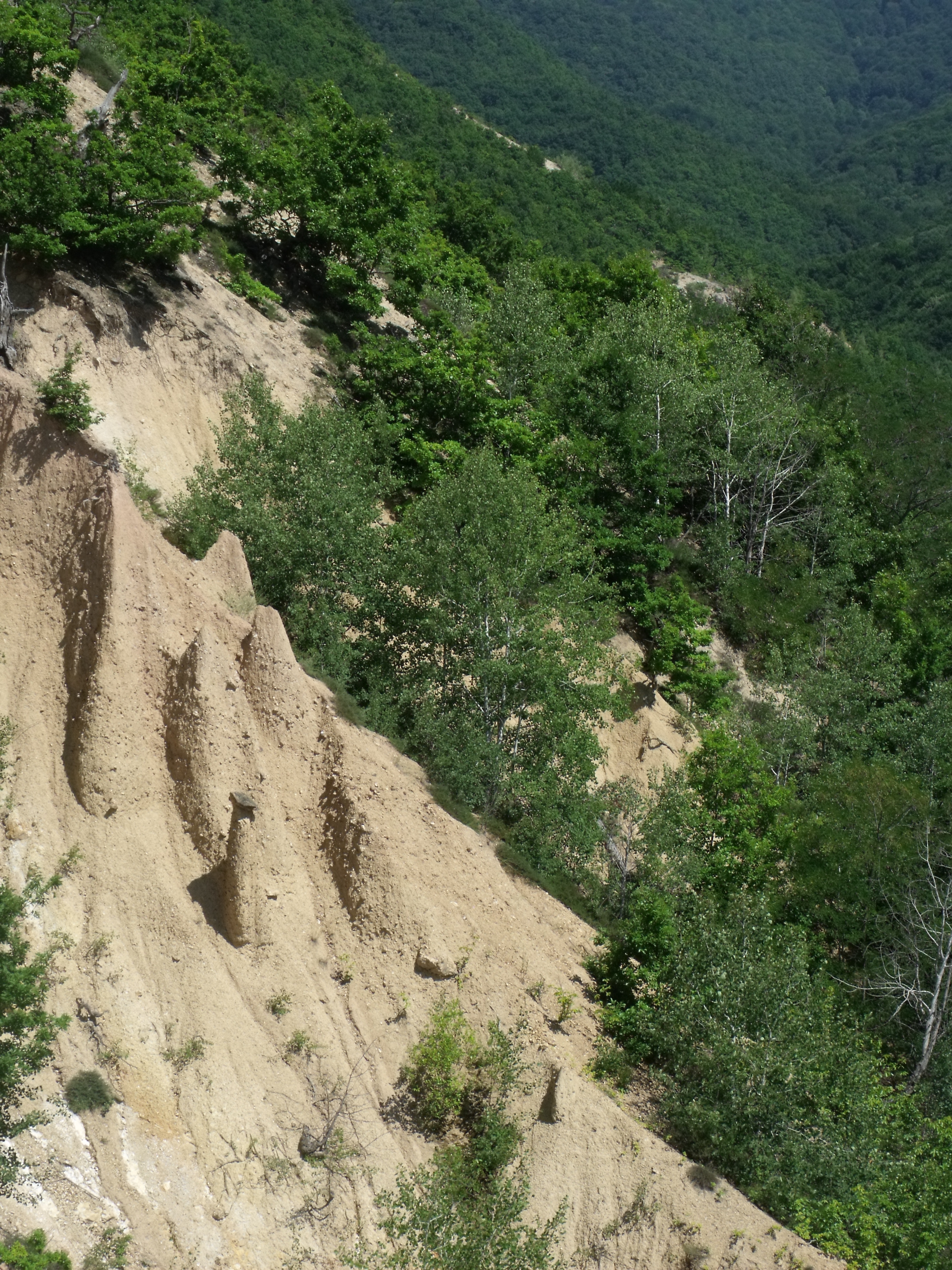 Djavolja varos, Serbia